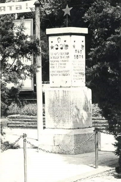 The old monument on the General Nikolaevo square in Rakovski